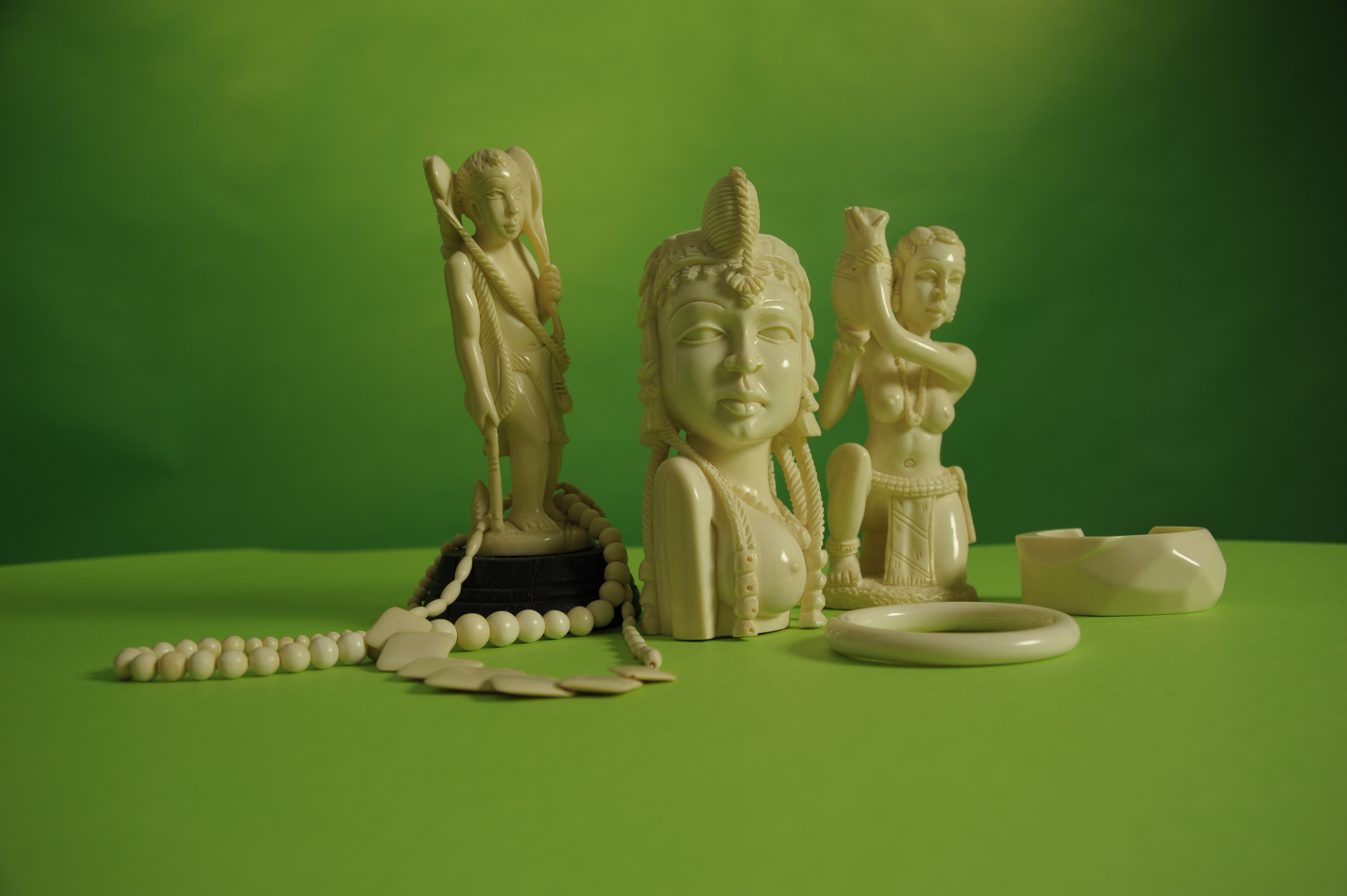 Ivory statues